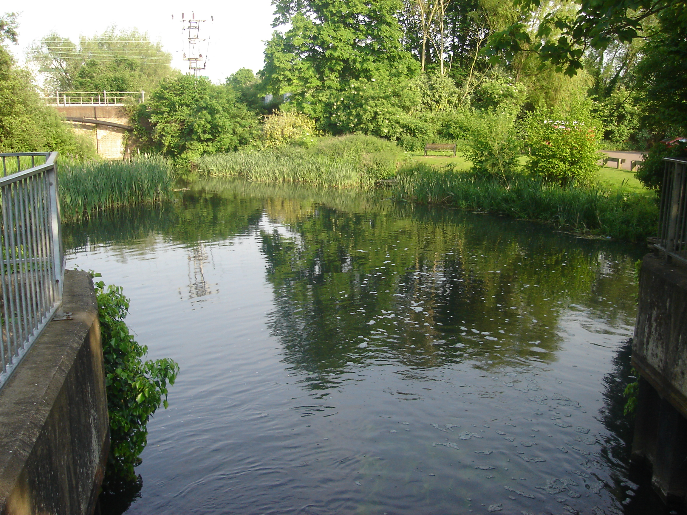 Picture of mill-pool at Broxbourne Mill, Hertfordshire